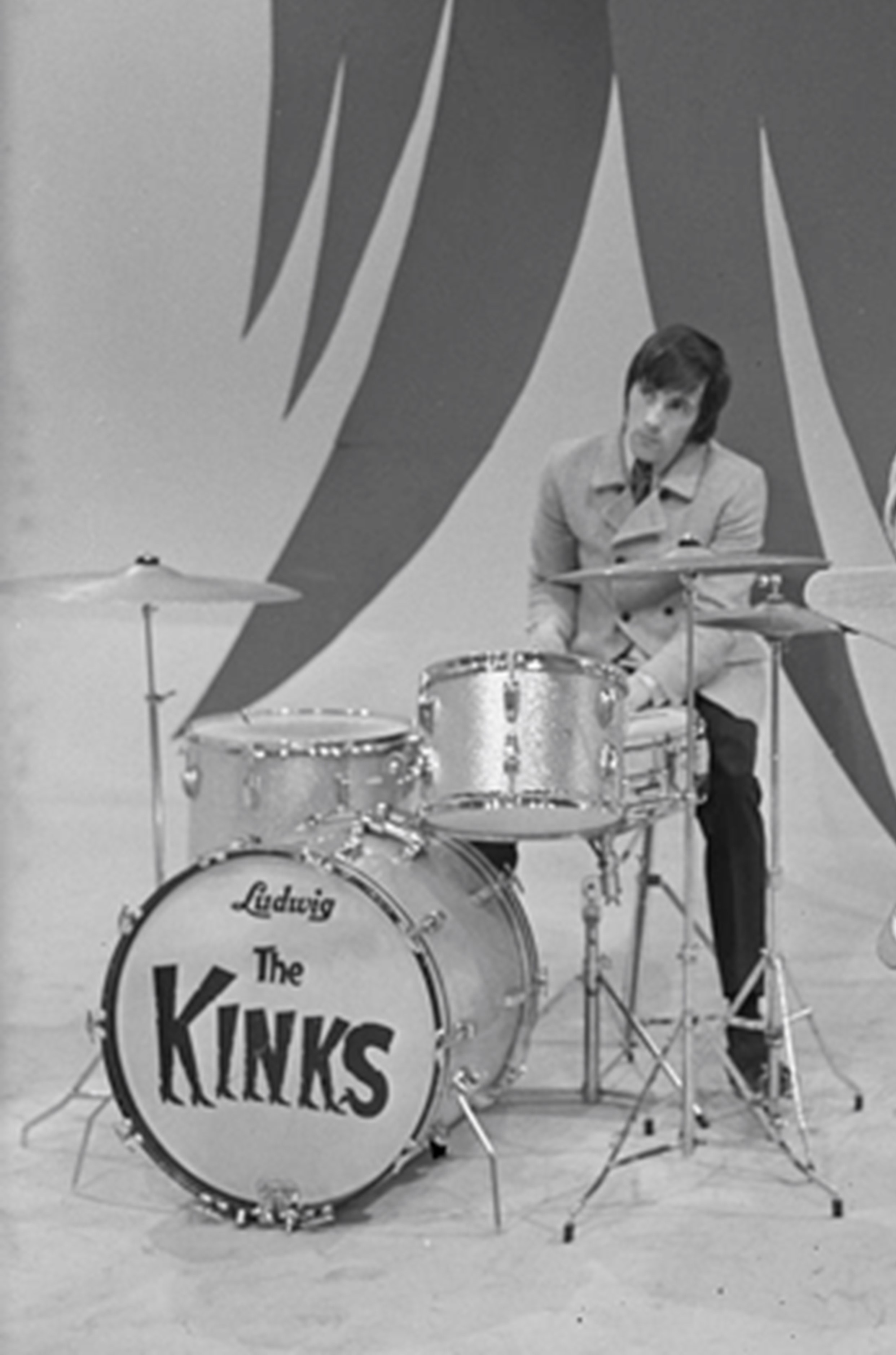 Mick Avory (The Kinks) performing This is where I belong and Mr. Pleasant. Dutch TV programme Fanclub (29 April 1967)